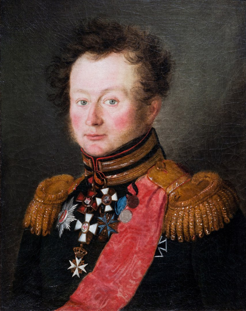 Bistrom Karl Ivanovich